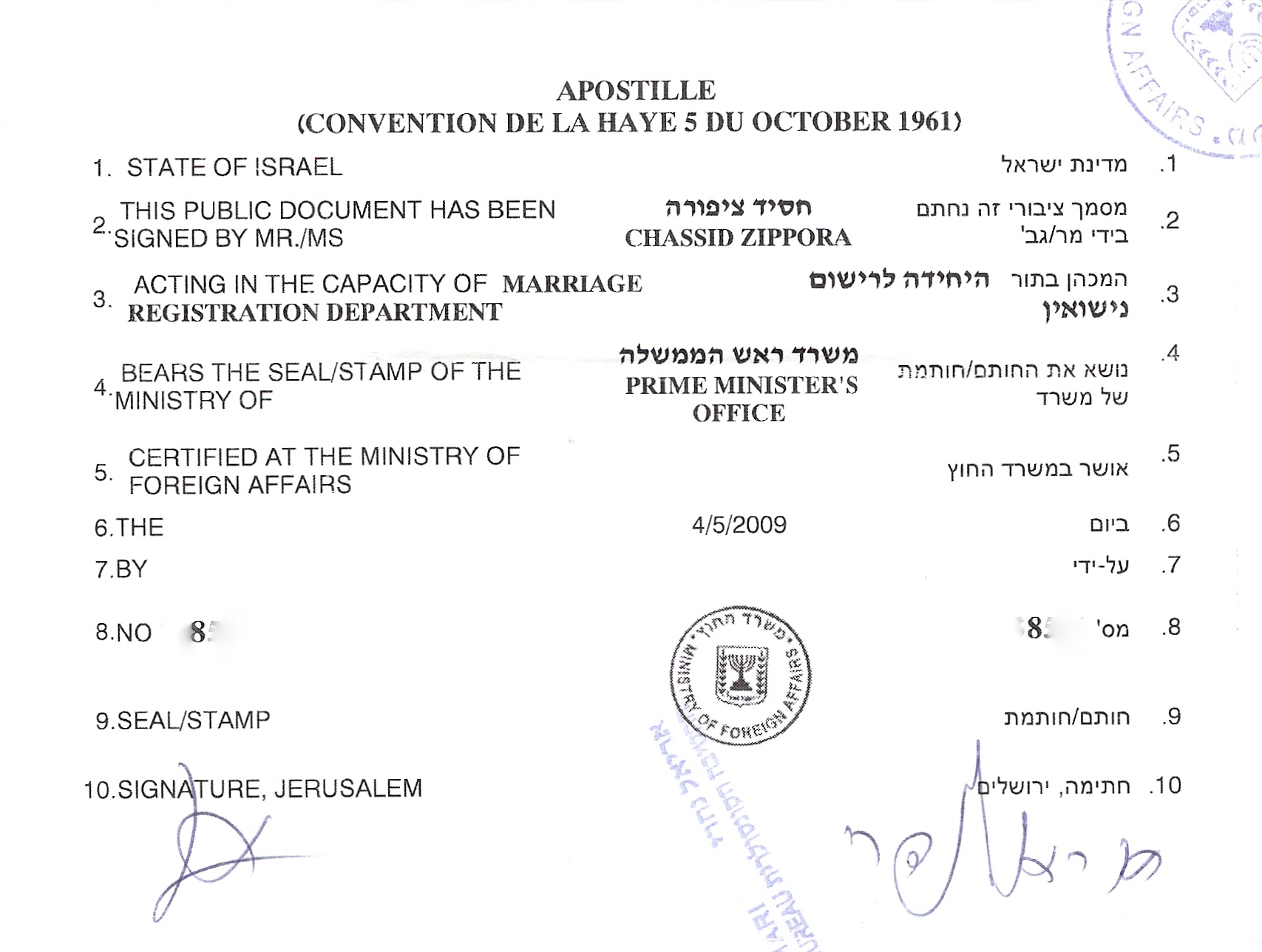 An Israeli apostille place on a marriage certificate.